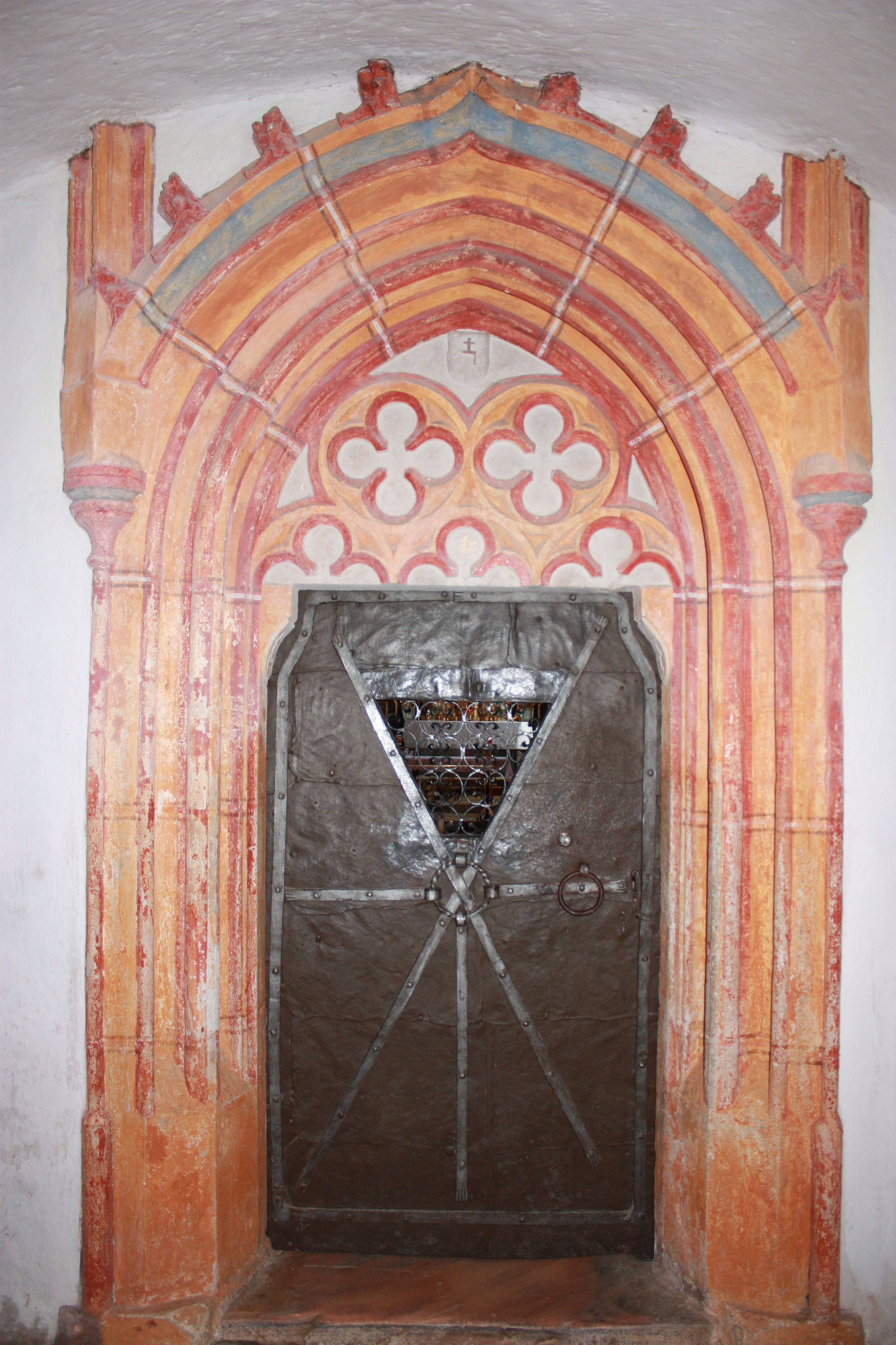 Portal of the Parish church "Maria Magdalena" in Grafenbach in the community of Diex